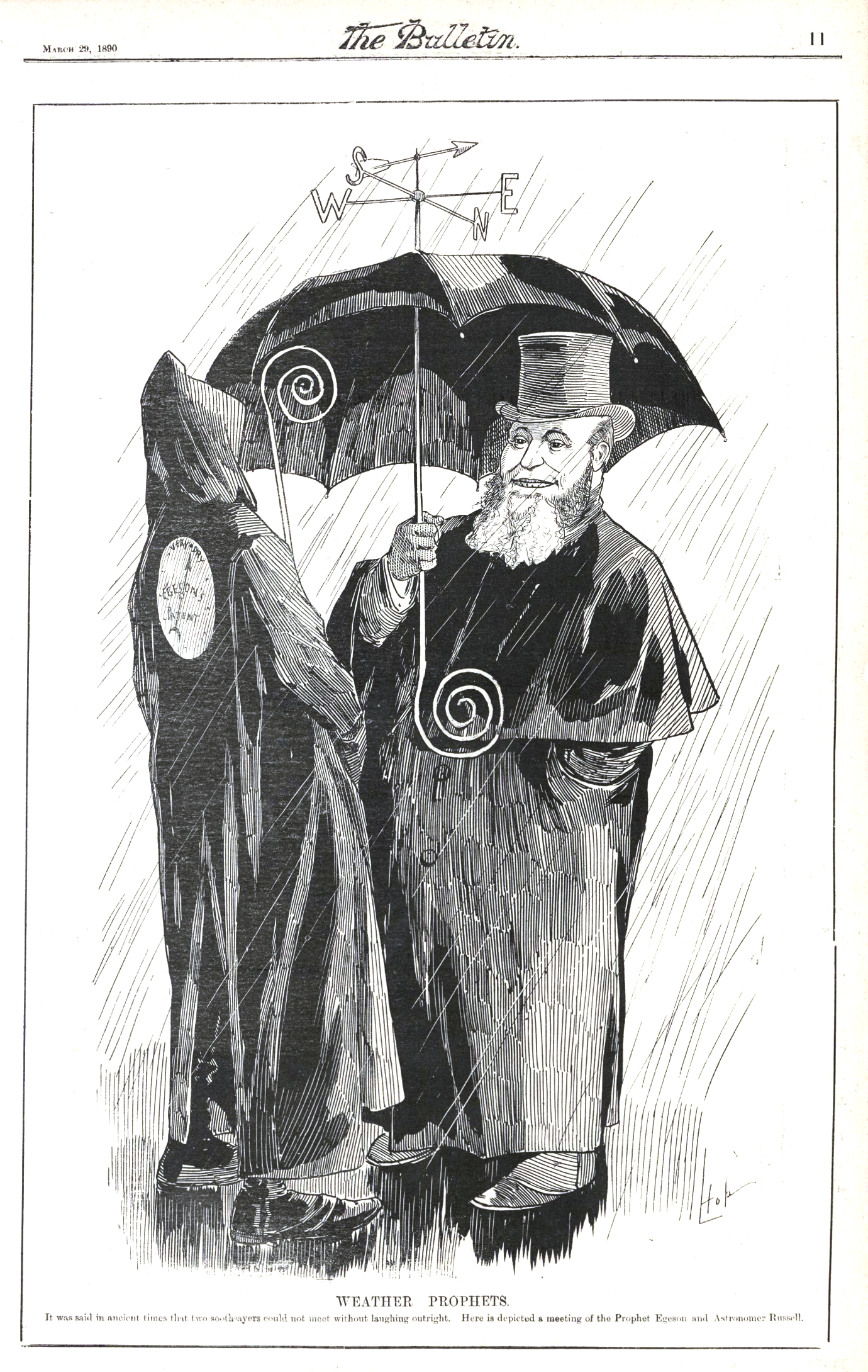 Charles Egeson and Henry Chamberlain Russell - "It was said in ancient times that two soothsayers could not meet without laughing outright. Here is depicted a meeting of the Prophet Egeson and Astronomer Russell." The Bulletin. March 29, 1890. p. 11